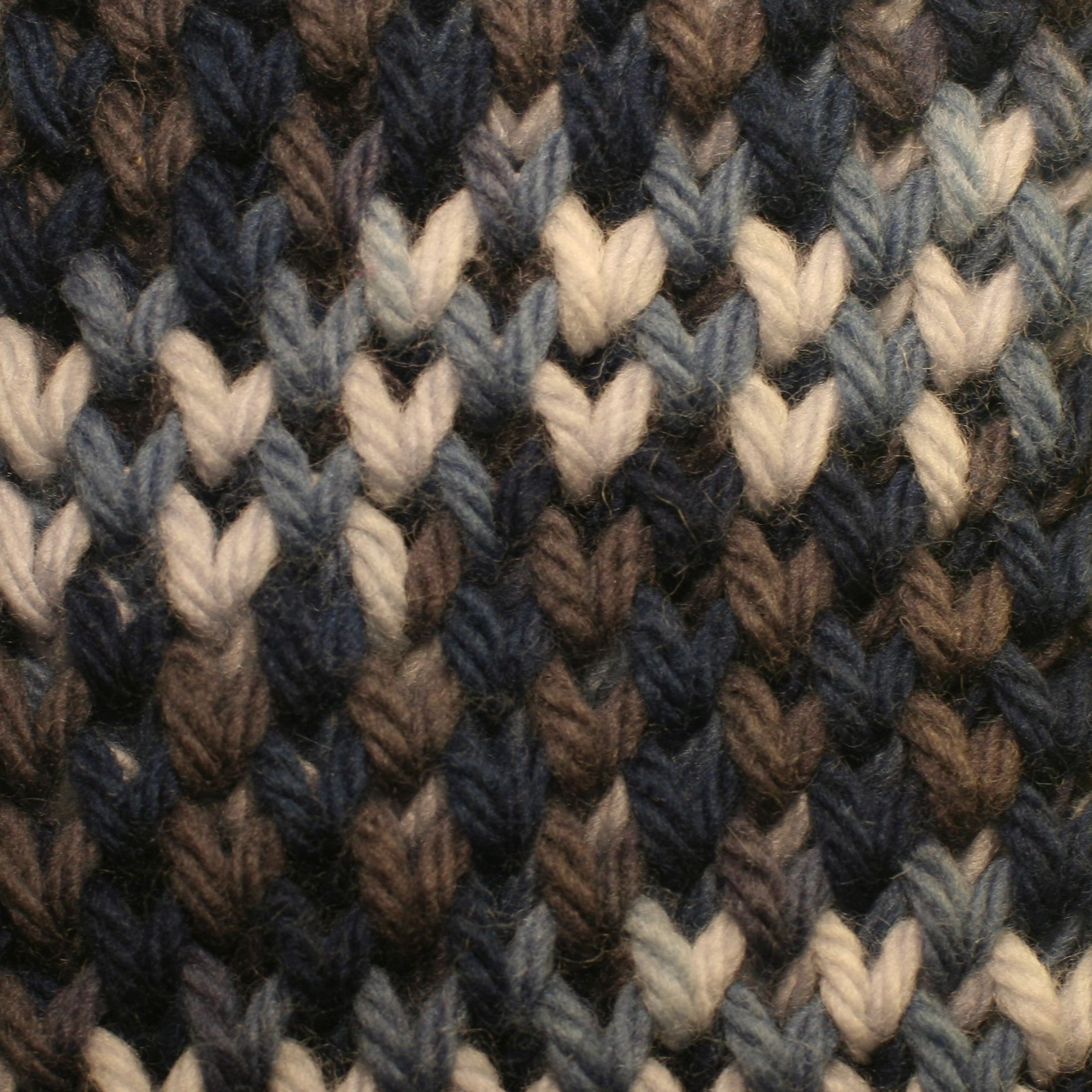 Author: Mollie Taylor (me) URL: Mollyemo 01:17, 29 October 2006 (UTC)